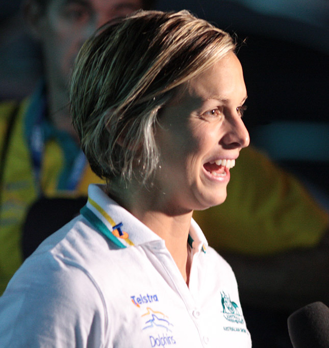 Australian swimmer Libby Trickett during 2009 FINA World Championships, Rome, Italy.